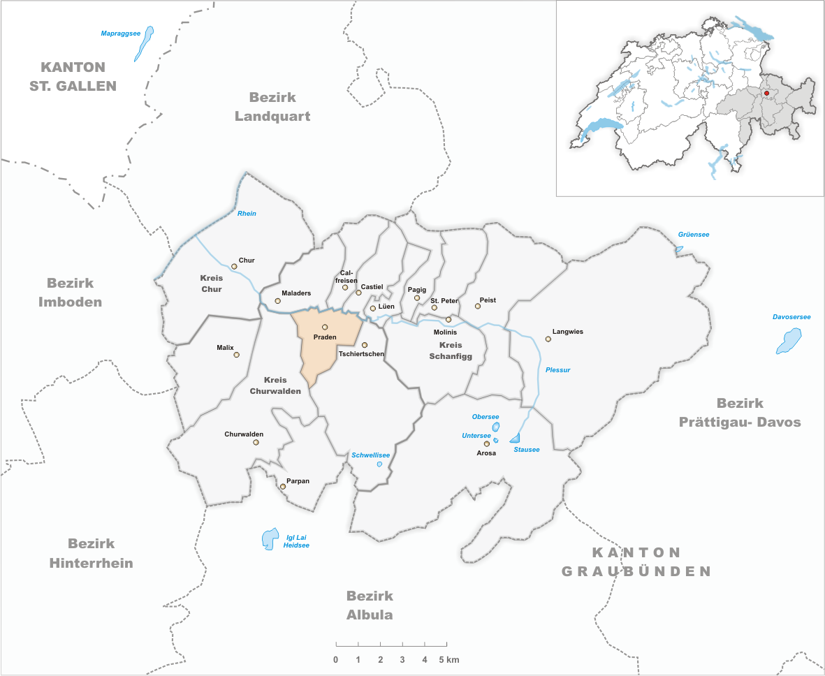 Municipality Praden